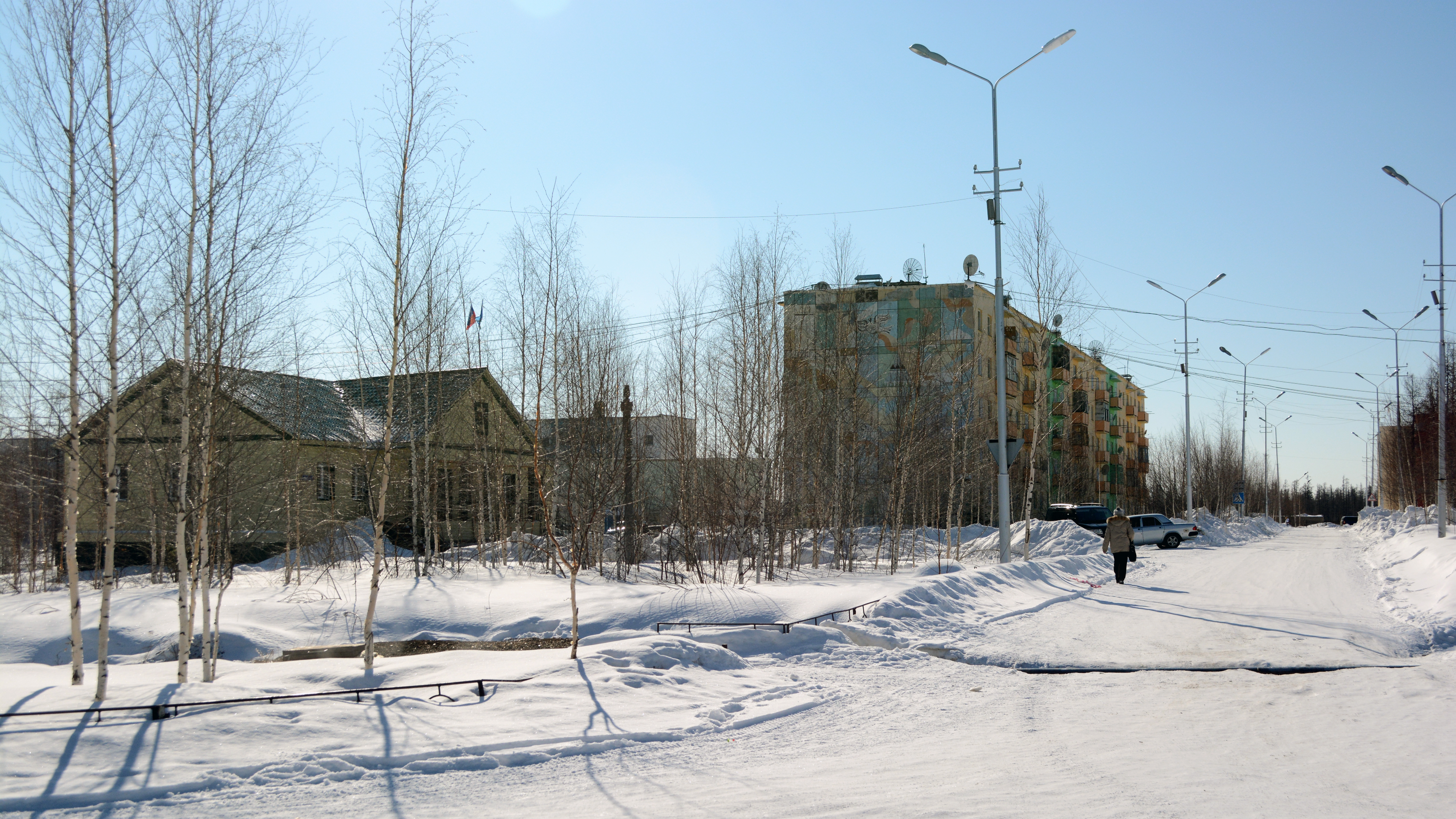 Svetly. Sakha (Yakutia) Republic, Russia